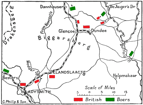 Map showing positions of Boer and British forces at noon, 21 October 1899, before the Battle of Elandslaagte.